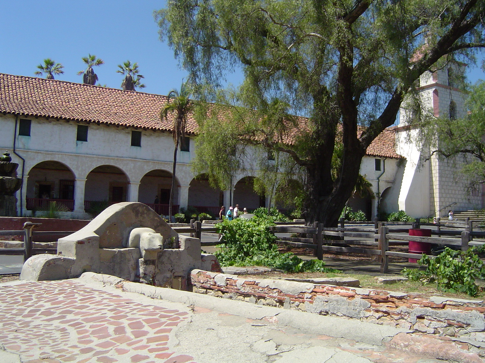 Photographed and uploaded by User:Geographer The clothes washing basin (lavanderia) was built by the Chumash Indians of Santa Barbara Mission village in 1808. The Bear's head at the end is a modern replica, on July 31, 2005.